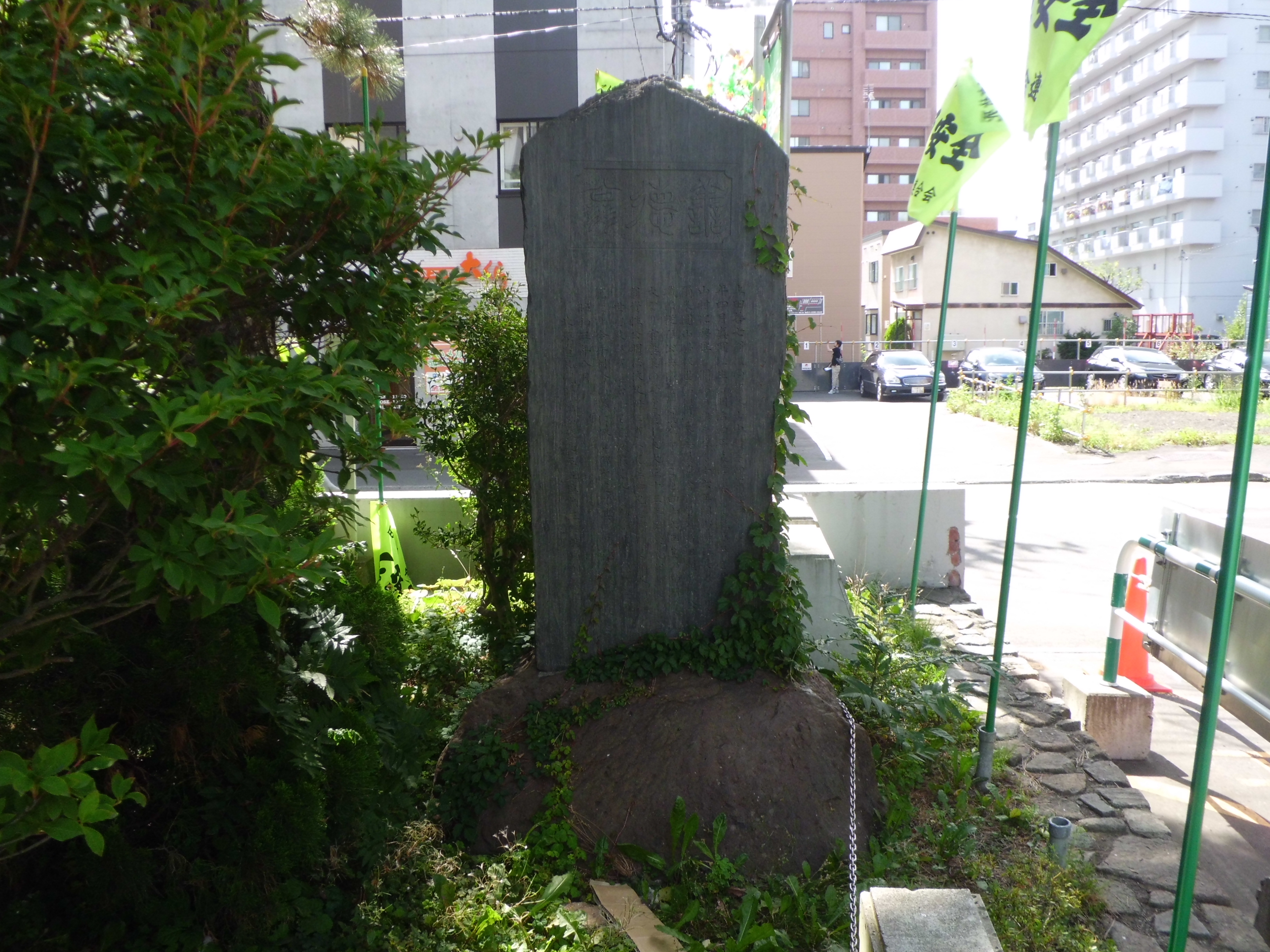 Monument of Zenshichi Ueda